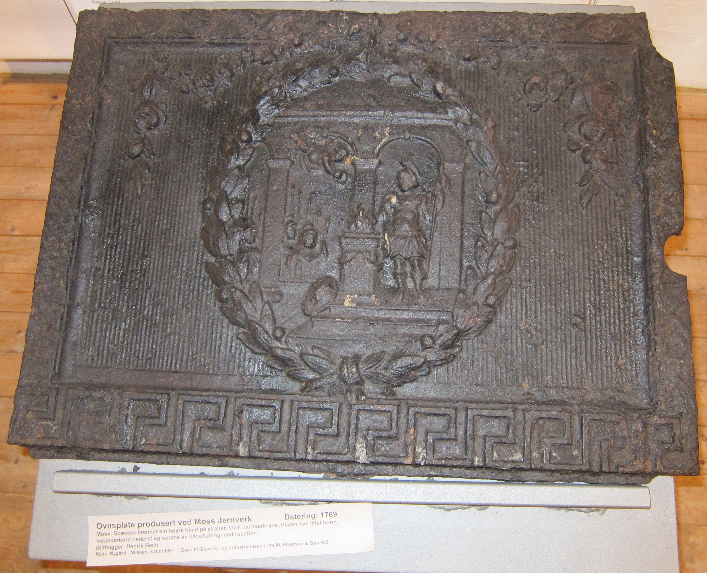 Stove plate in iron from Moss Jernverk, dated 1769, artist Henrik Bech, on display at Moss By- og Industrimuseum (Moss City Museum)